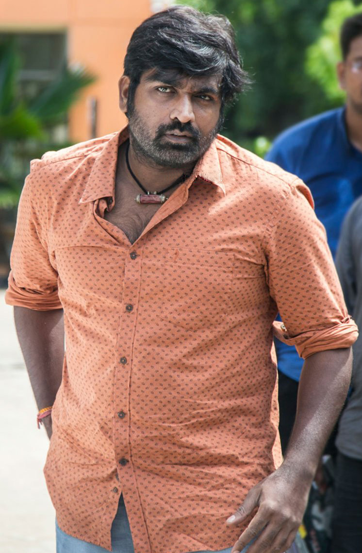 Vijay Sethupathi, C Prem Kumar, Devadarshini At The 96 Success Meet